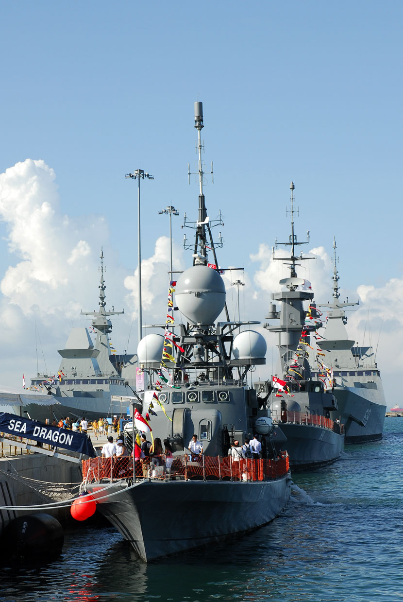 The Republic of Singapore Navy Sea Wolf class missile gunboat RSS Sea Dragon (P78) at Changi Naval Base, Singapore.